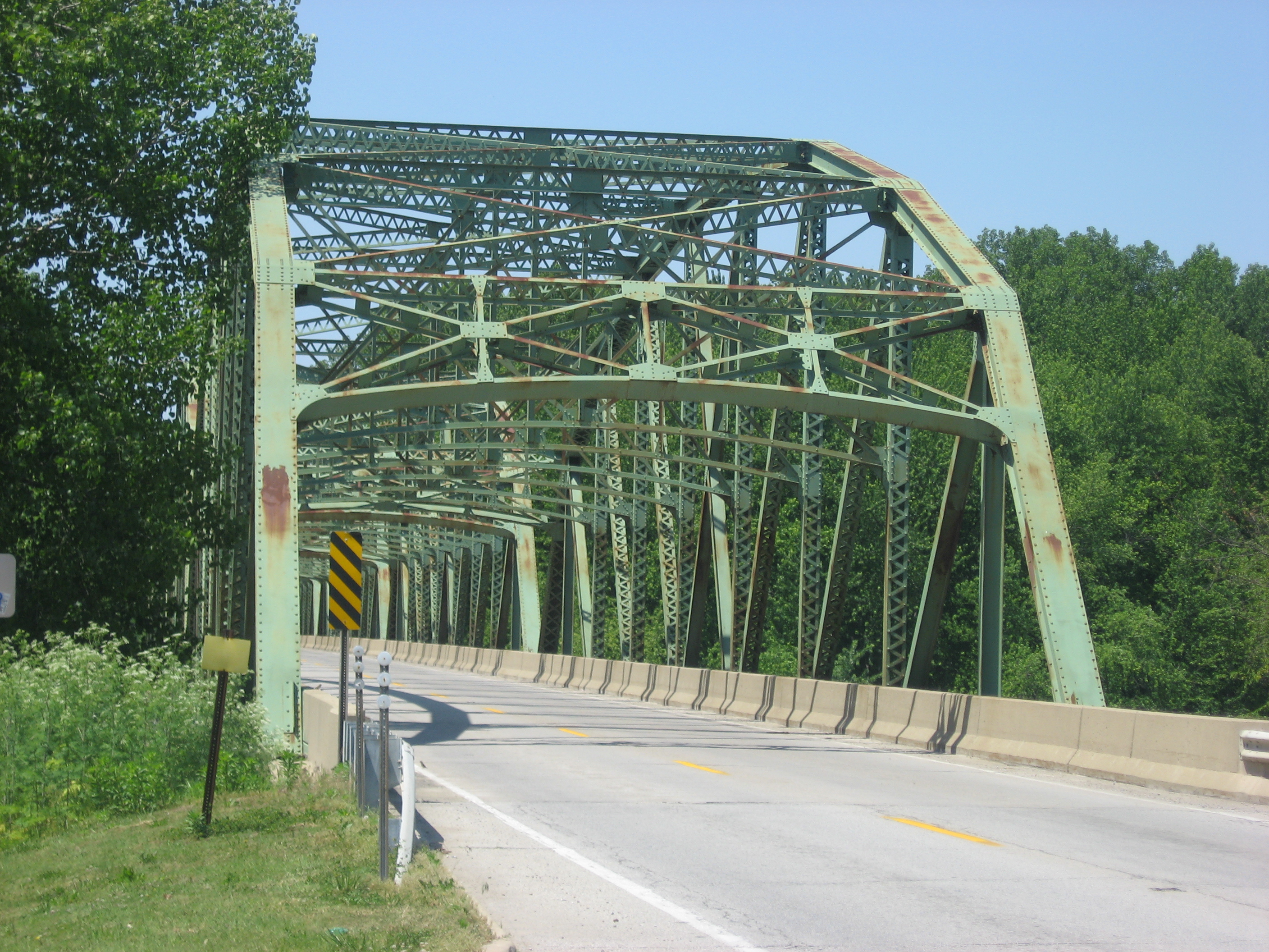 Eastern end of the bridge that carries U.S. Route 36 over the Wabash River between Montezuma in Parke County and Helt Township in Vermillion County in the U.S. state of Indiana. It was built in 1920.